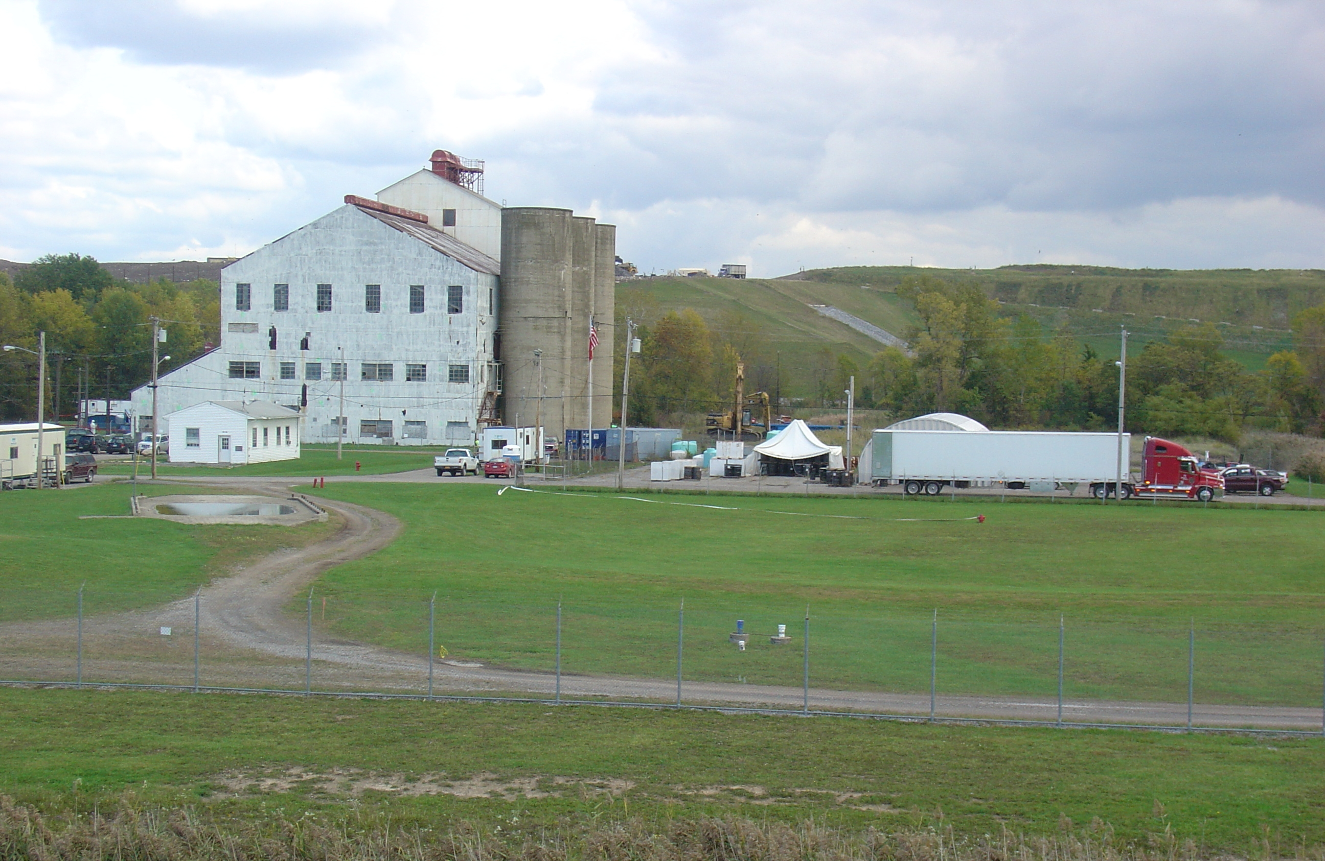 Building 401 - Niagara Falls Storage Site, Lewiston, New York